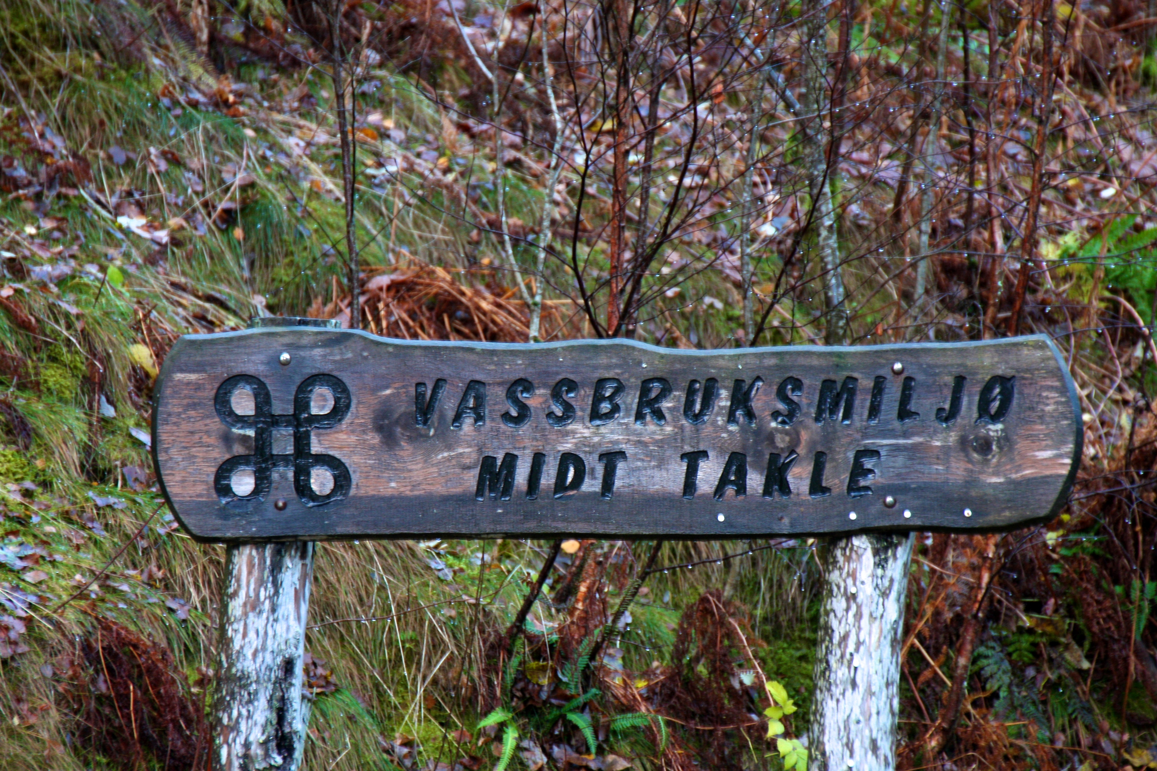 Takle in Gulen municipality, Norway.